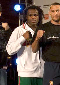 Rameau Thierry Sokoudjou at the official weigh-in of Pride 33, Thomas & Mack Center on February 23, 2007.